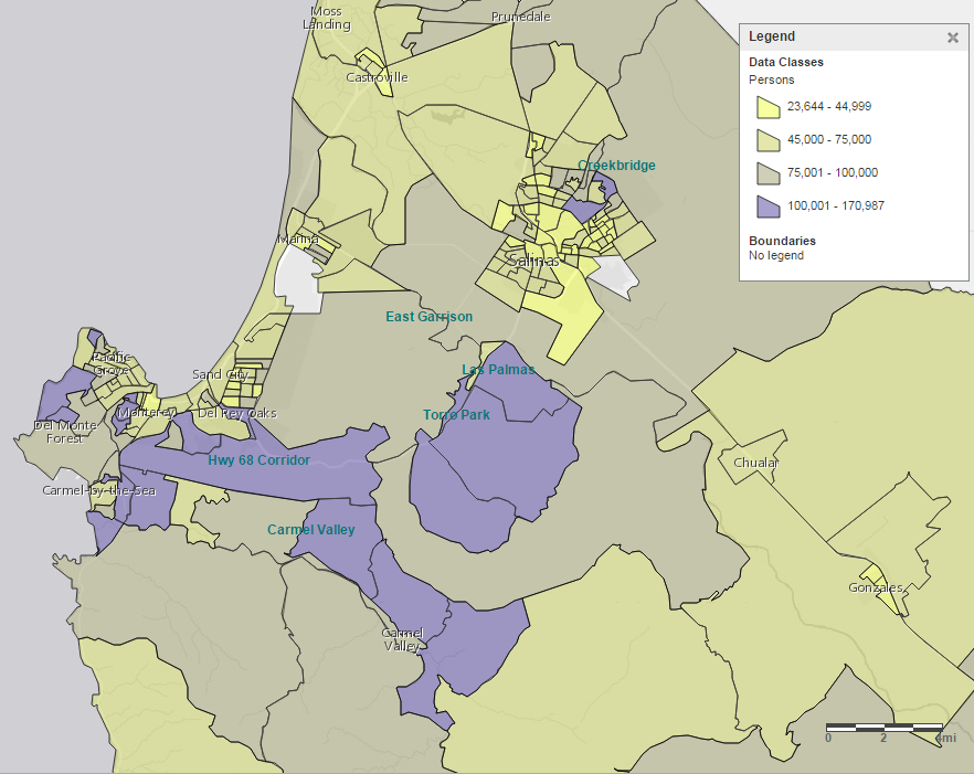 Generated using American Fact Finder tool: U.S. government retains no copyright with composition being my own work.